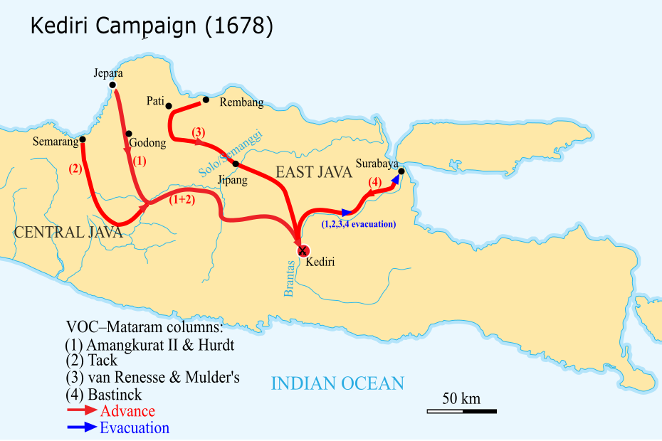 Map of Central and East Java depicting Mataram–VOC troop movement during the Kediri campaign (1678) (part of Trunajaya rebellion, in which the coalition marched to take Trunajaya's stronghold and capital at Kediri. Instead of marching to Kediri directly from Surabaya—which would be the shortest route—the army split itself and took a longer route through Central and East Java, in order to impress factions whose allegiance were wavering and encourage them to join the army.